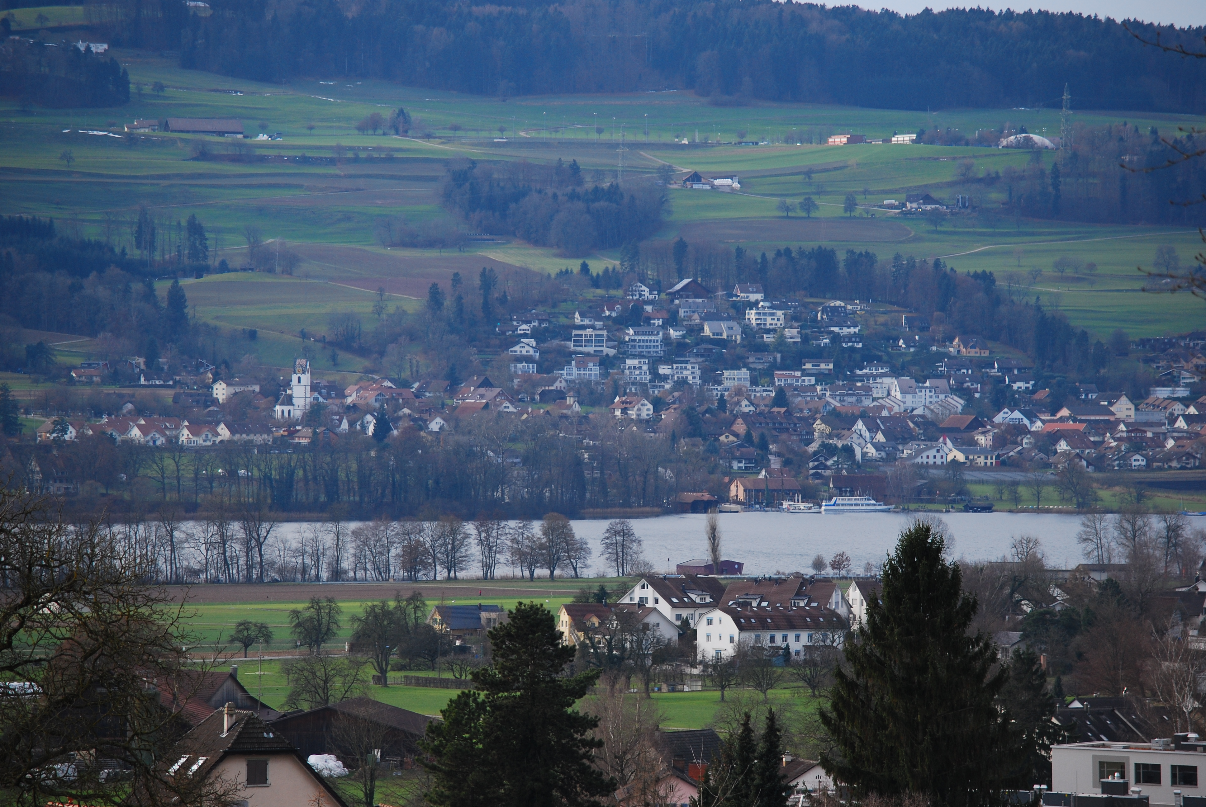 Mauer seen by telephoto lens from the castle hill at Uster, canton of Zürich, Switzerland